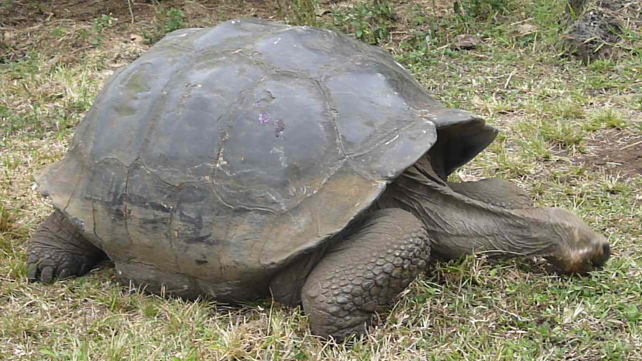 The Galápagos tortoise or Galápagos giant tortoise (Chelonoidis nigra) is the largest living species of tortoise and 10th-heaviest living reptile, reaching weights of over 400 kg (880 lb) and lengths of over 1.8 meters (5.9 ft). With life spans in the wild of over 100 years, it is one of the longest-lived vertebrates. A captive individual lived at least 170 years. The tortoise is native to seven of the Galápagos Islands, a volcanic archipelago about 1,000 km (620 mi) west of the Ecuadorian mainland. Spanish explorers, who discovered the islands in the 16th century, named them after the Spanish galápago, meaning tortoise. Shell size and shape vary between populations. On islands with humid highlands, the tortoises are larger, with domed shells and short necks - on islands with dry lowlands, the tortoises are smaller, with "saddleback" shells and long necks. Charles Darwin's observations of these differences on the second voyage of the Beagle in 1835, contributed to the development of his theory of evolution.